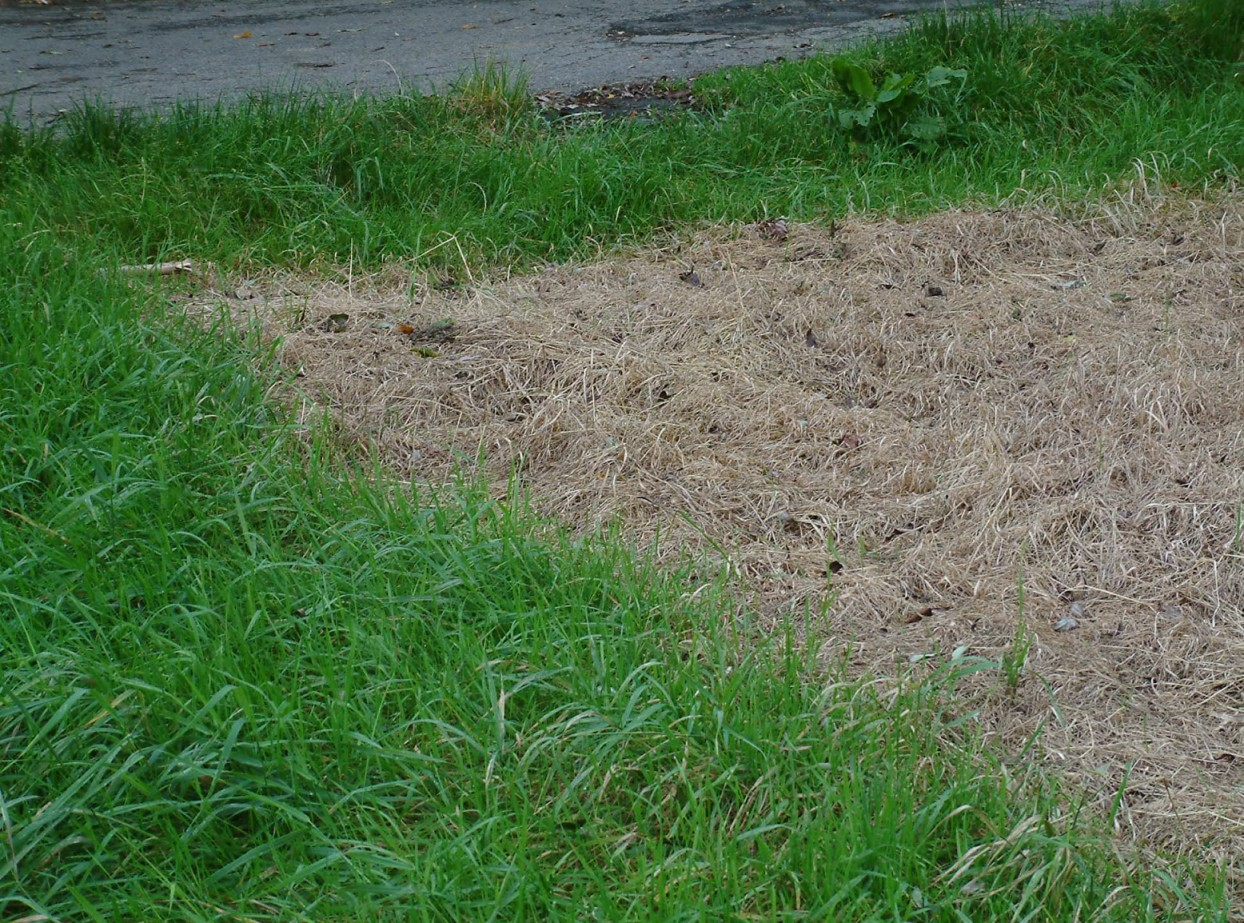 Field, after treatment with herbicides.